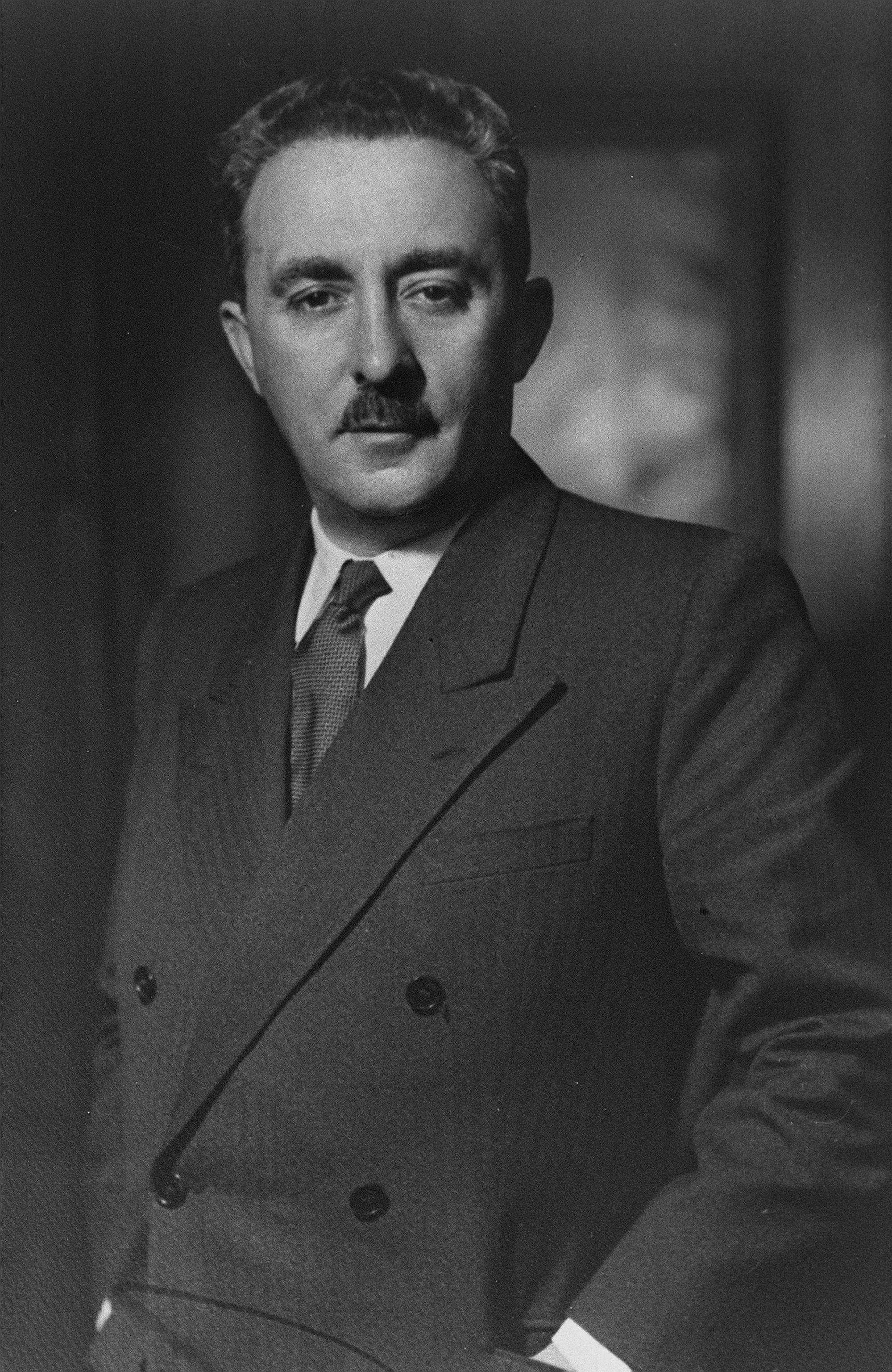 Portrait of Moshe Sharett